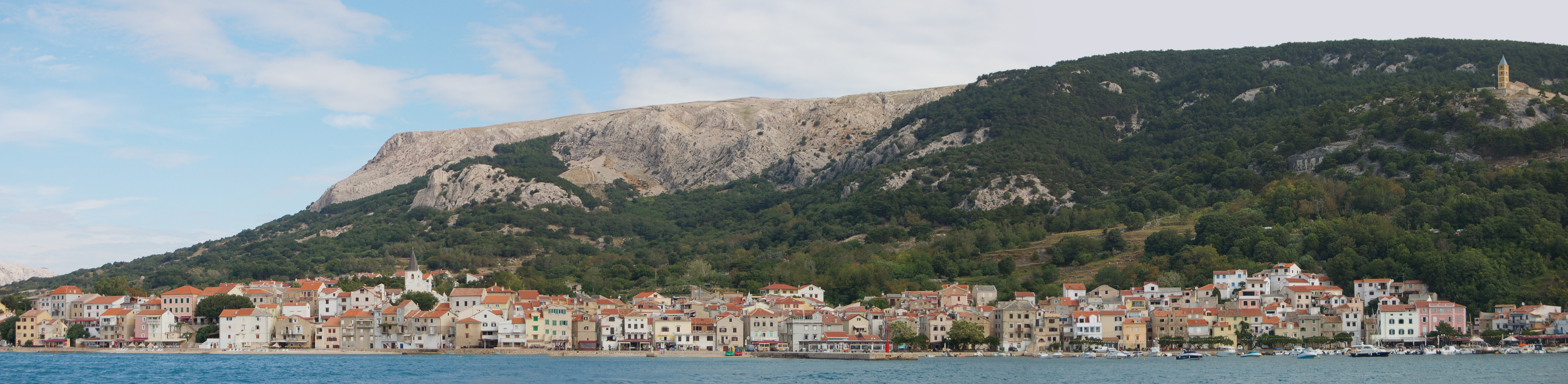 View from the sea of Baška, Krk Island, Croatia